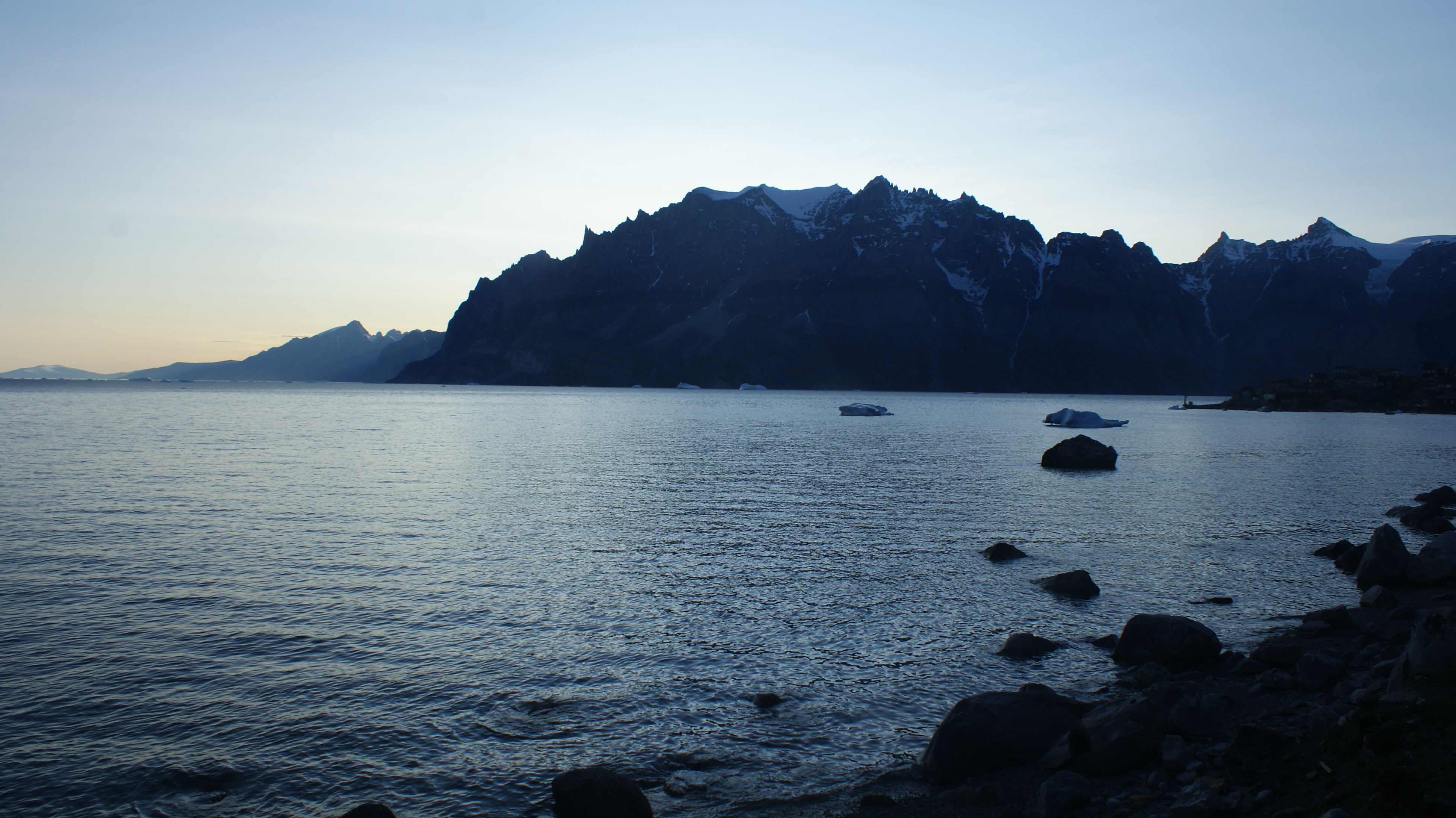 White night at Ukkusissat, Greenland: the northeastern part of Uummannaq Fjord and mountains of the mainland.